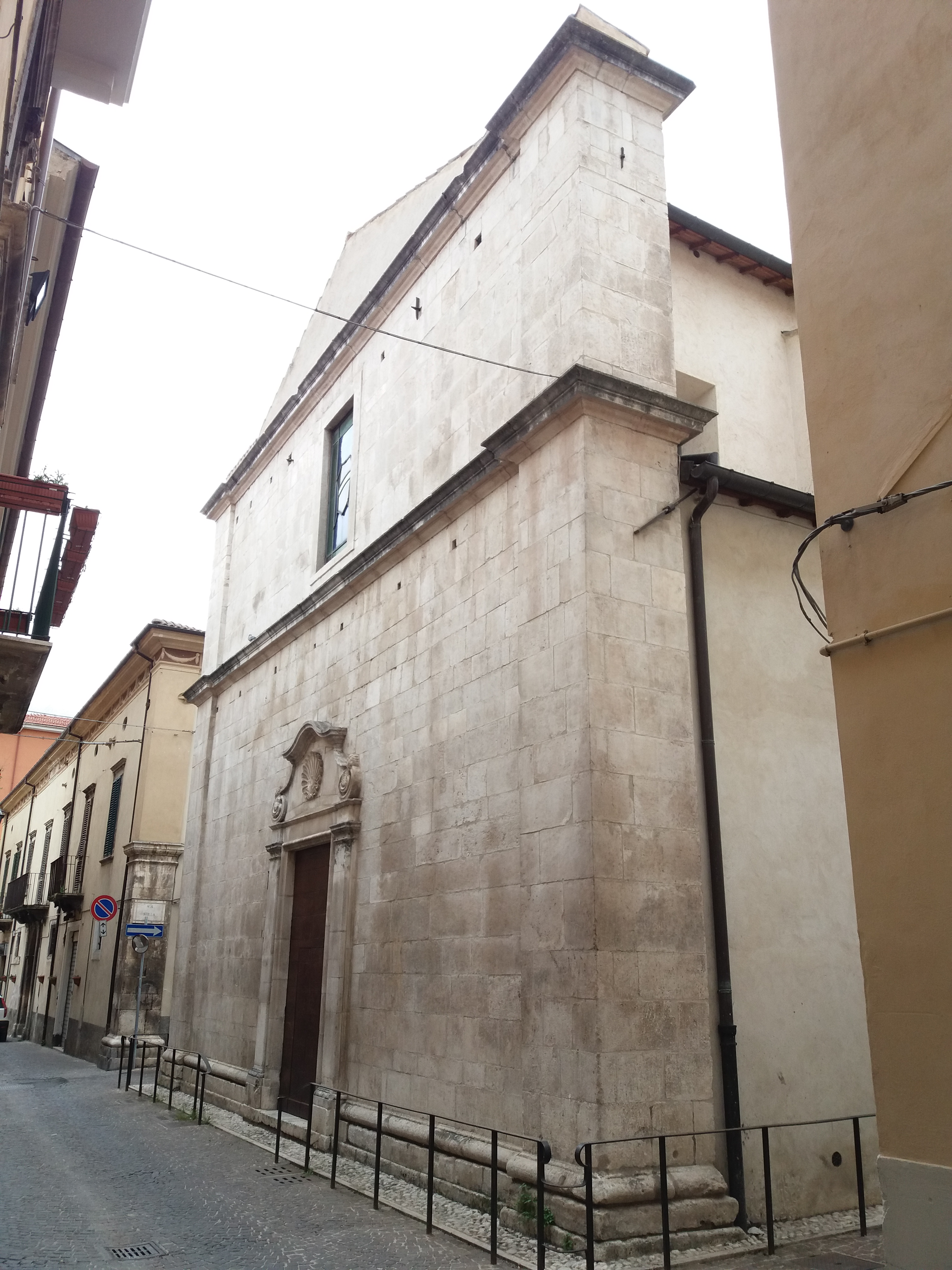 Sulmona: Chiesa di San Gaetano